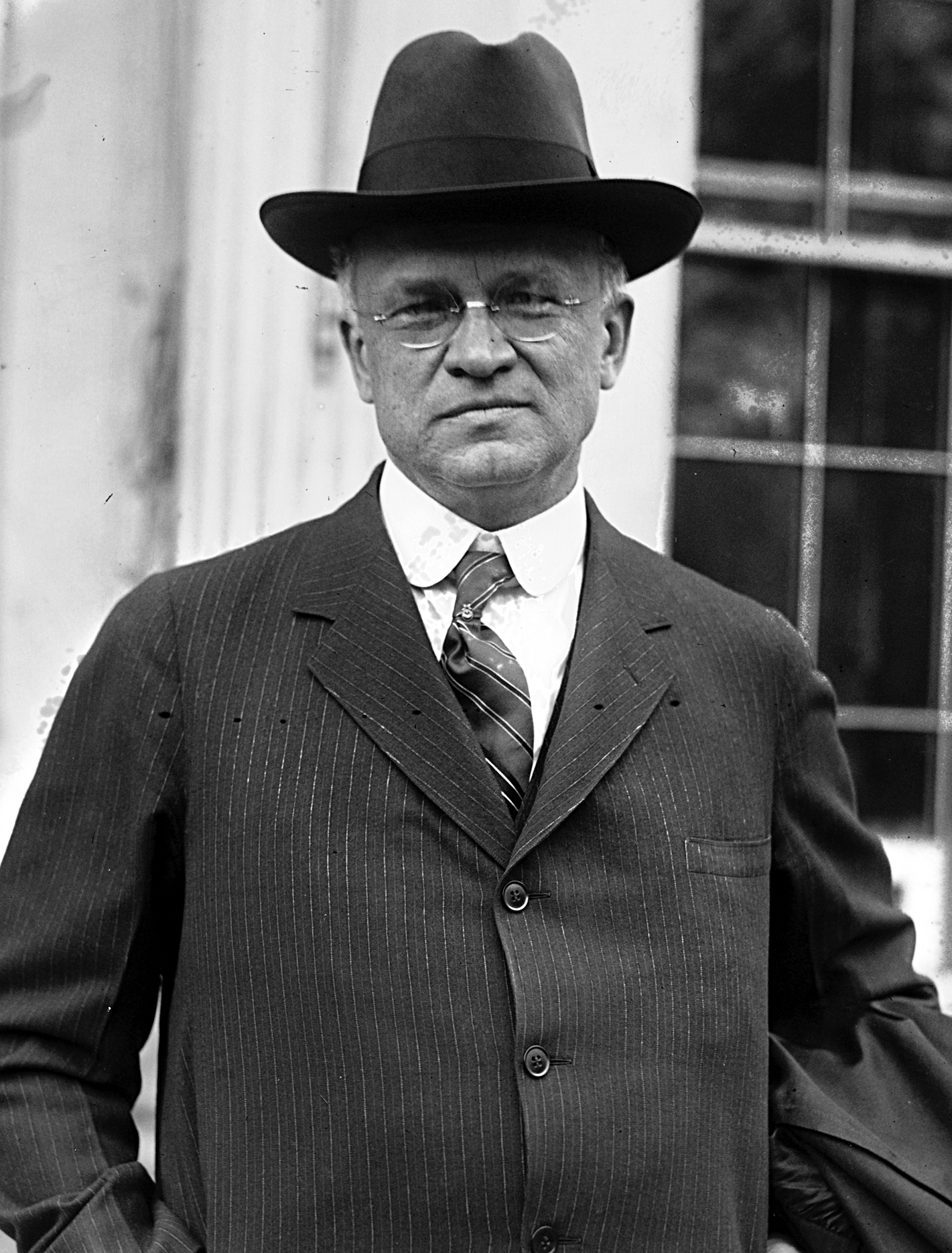 Allen T. Treadway, US Representative from Massachusetts